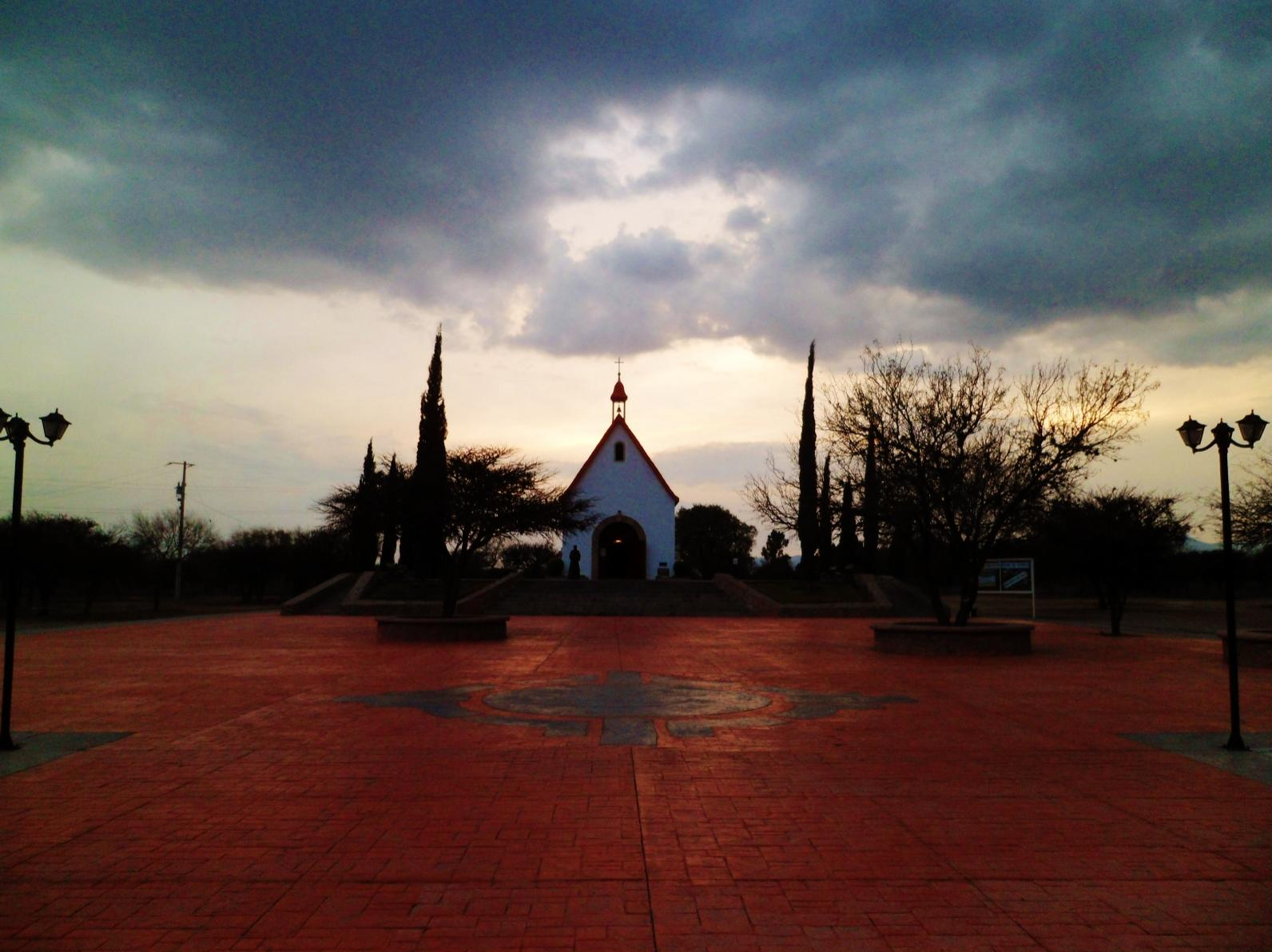 Schoenstatt Shrine "Maravillas de Maria", San Luis Potosi city, San Luis Potosi state, Mexico